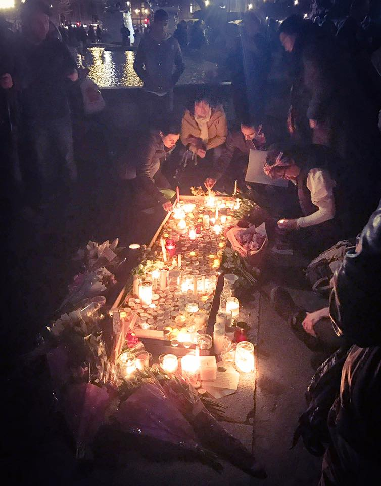 Londoners and vistors lighting up candels during a vigil in Trafalgar Square on March 23rd